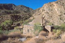 The cabin of Jack Miller, made from cement with an overlay of local rock in Martinez Canyon, Santa Rosa Wilderness, California USA